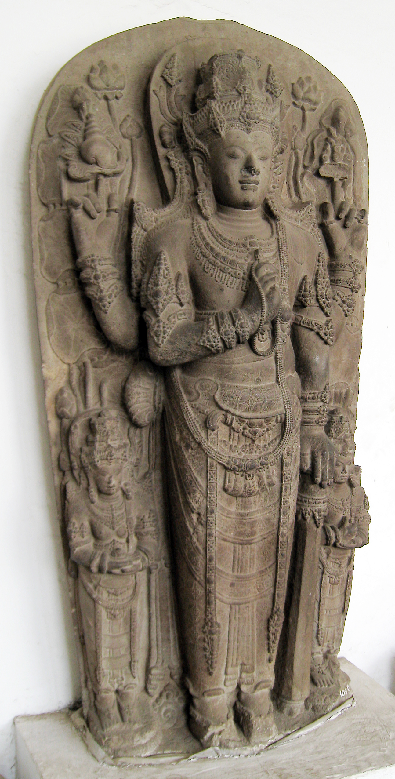 The statue of Harihara, the half Shiva and half Vishnu god. This statue is the mortuary deified potrayal of King Kertarajasa (Raden Wijaya), the first king of Majapahit (rule 1293-1309). The statue is taken from the temple Candi Simping, Sumberjati, Blitar, East Java, Now it is the exhibit collection of Indonesian National Museum, Jakarta. Raden Wijaya (Nararya Sanggramawijaya) or known as Kertarajasa Jayawardhana was the direct descendant of Rajasa Dynasty.